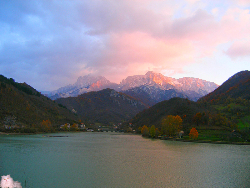 Pogled na Prenj